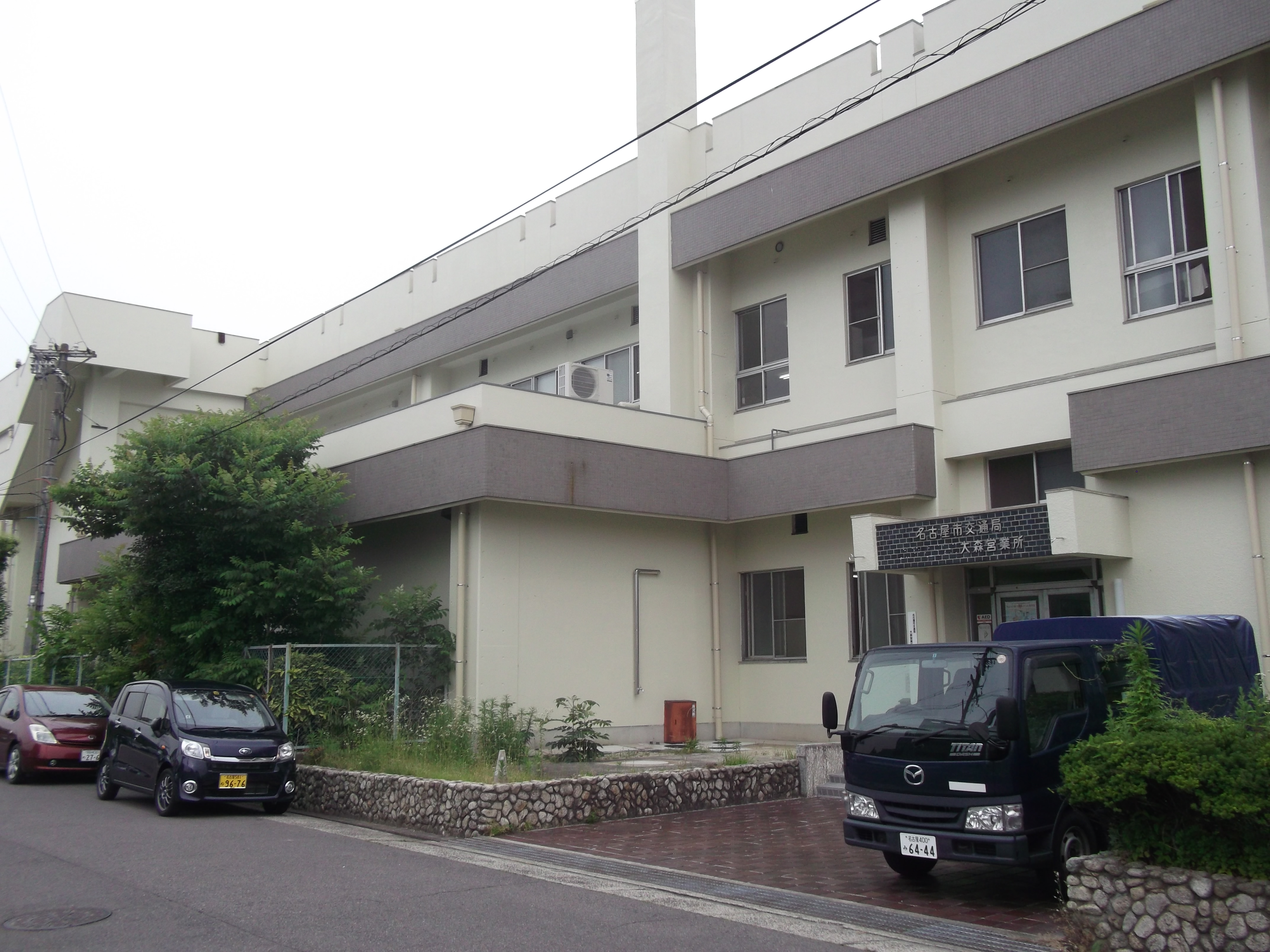 Nagoya City Bus Omori Depot in Moriyama-ku, Nagoya City